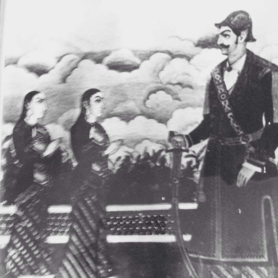 Bhimsen Thapa towering over two wives; painting by artist Juju Man Chitrakar